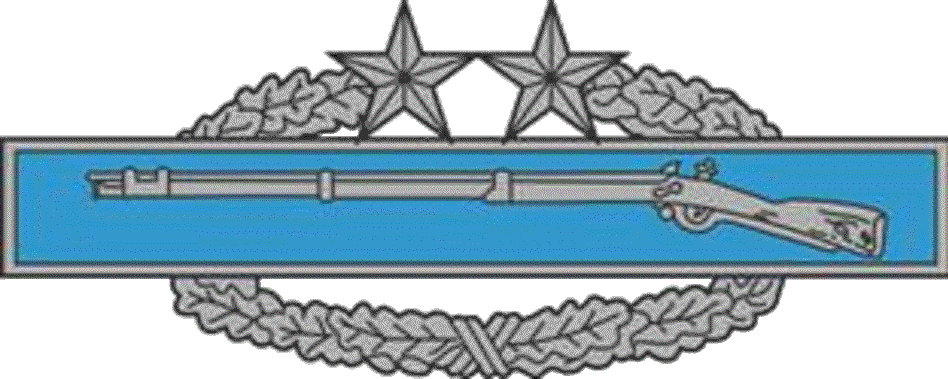 Source of CIB 3rd award image is (Federal US Government) The Office of the Administrative Assistant to the Secretary of the Army, The Institute of Heraldry at —US Army Institute Of Heraldry